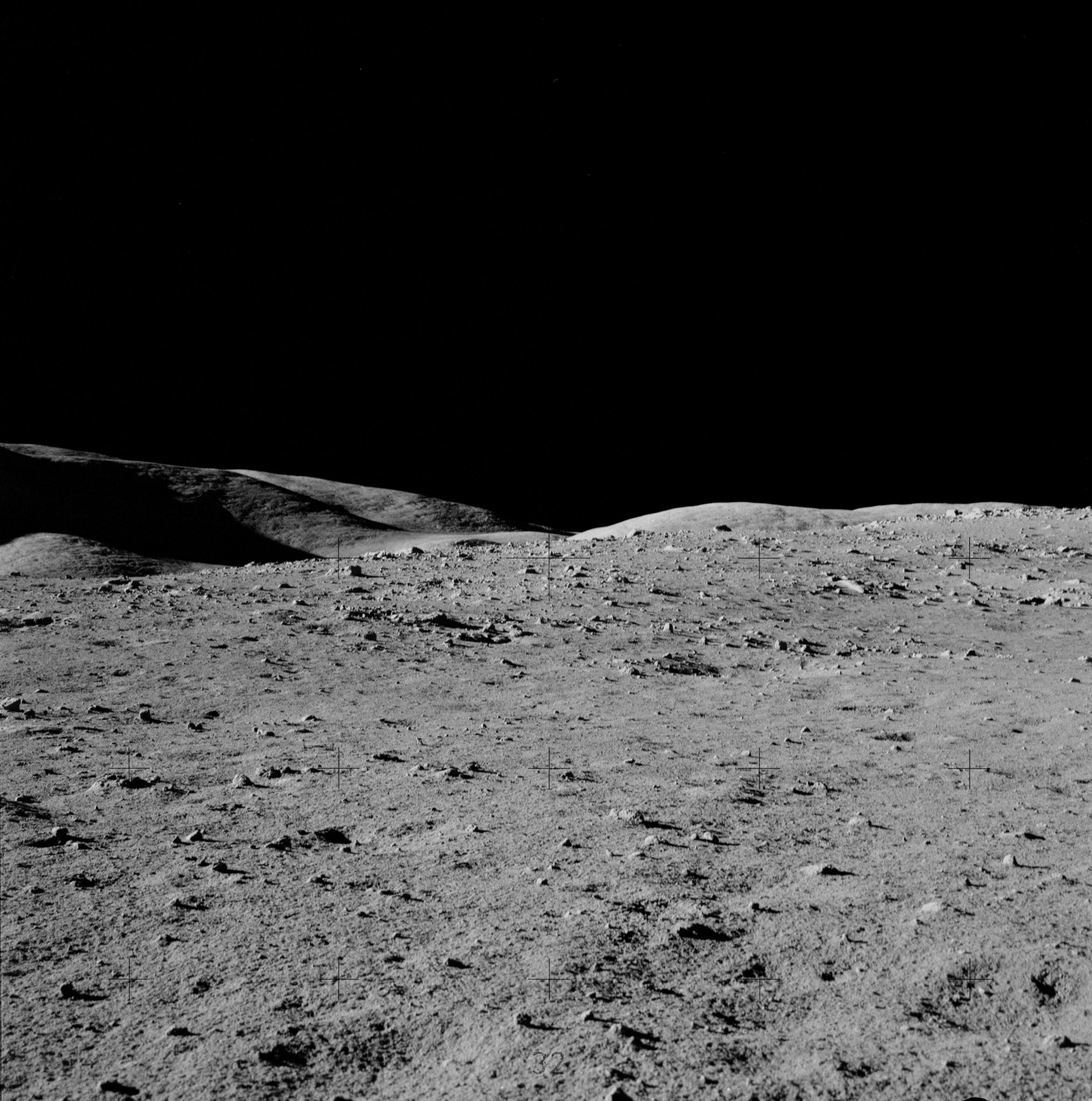 Photo showing part of the rim of Steno-Apollo (near horizon), Taurus–Littrow valley, the moon. Facing roughly south from Geology Station 1 of Apollo 17 mission.